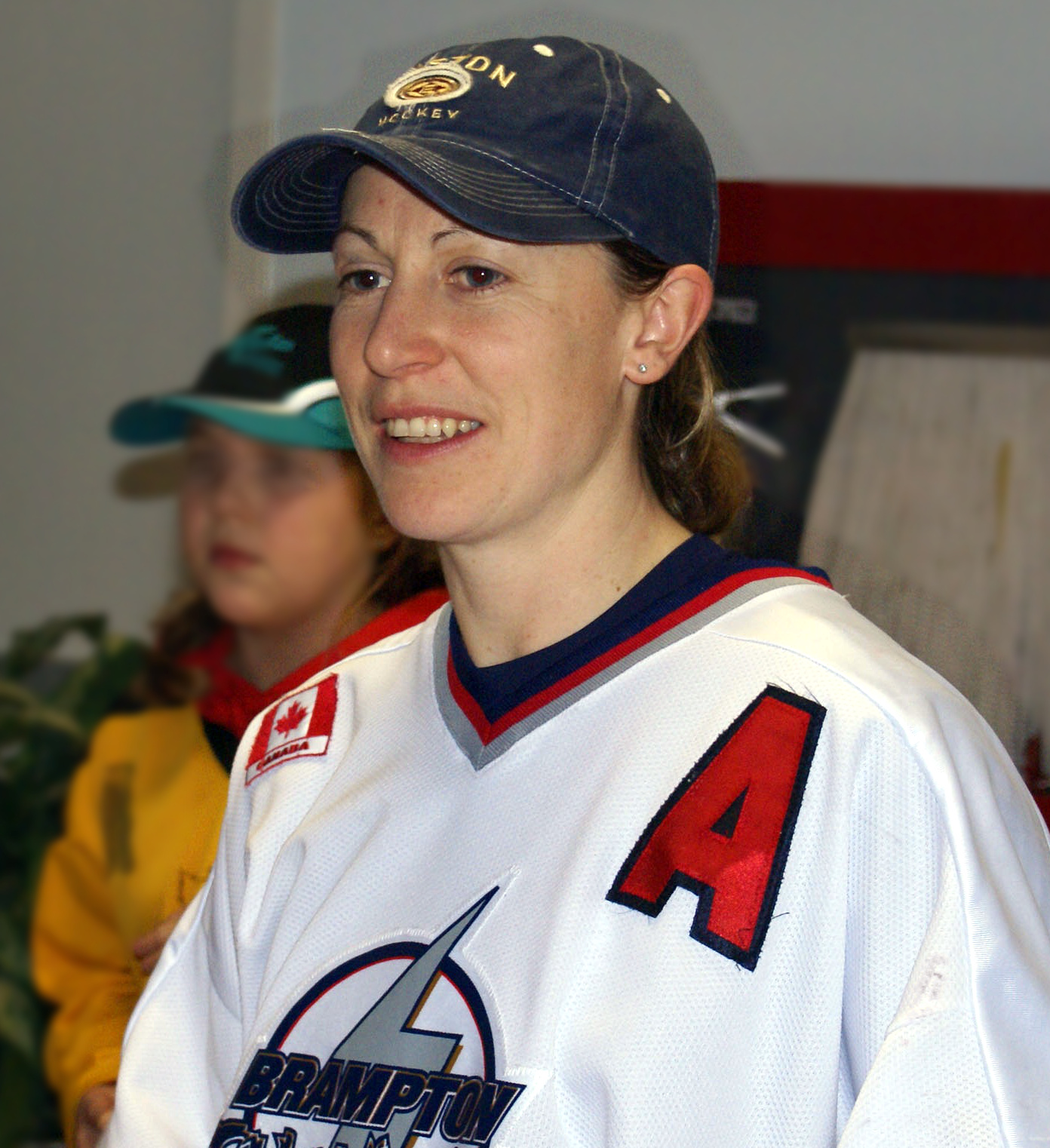 CWHL, Jayna Hefford, Brampton Thunder-Canadettes